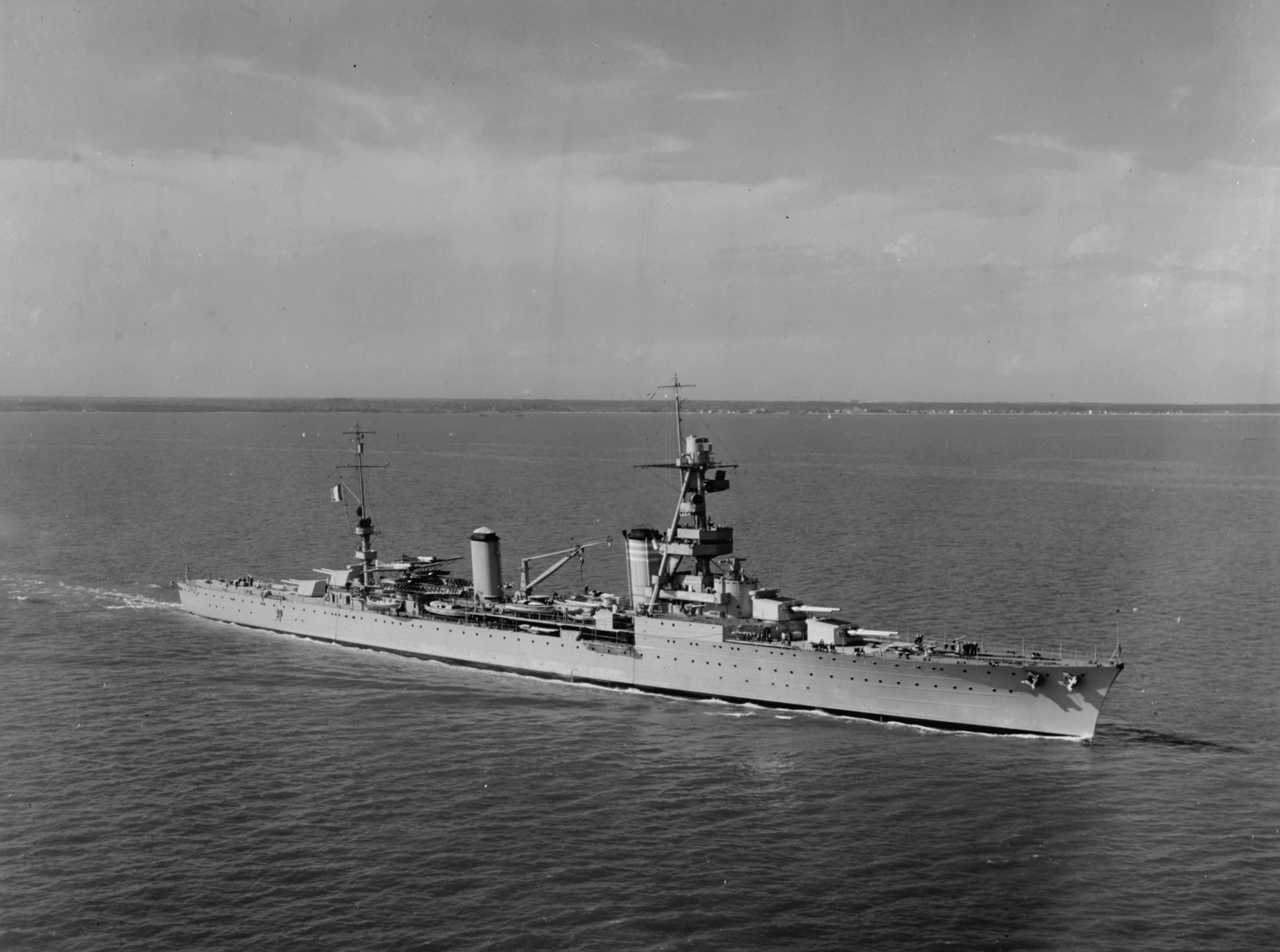 The French heavy cruiser Suffren in Hampton Roads, Virginia (USA), to attend the sesqui-centennial of the Battle of Yorktown, on 15 October 1931.